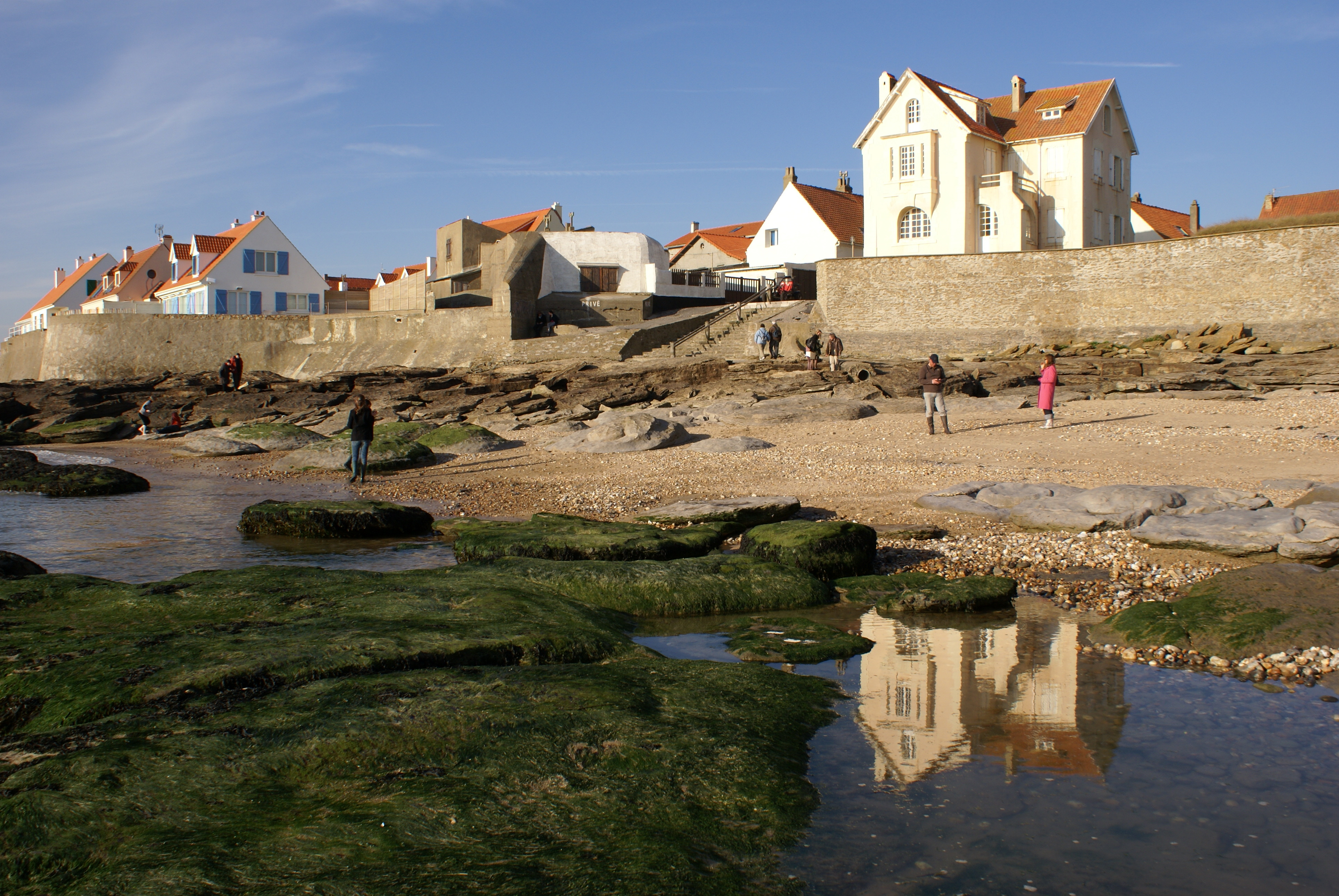 Seafront of the village of Audresselles seen from the beach